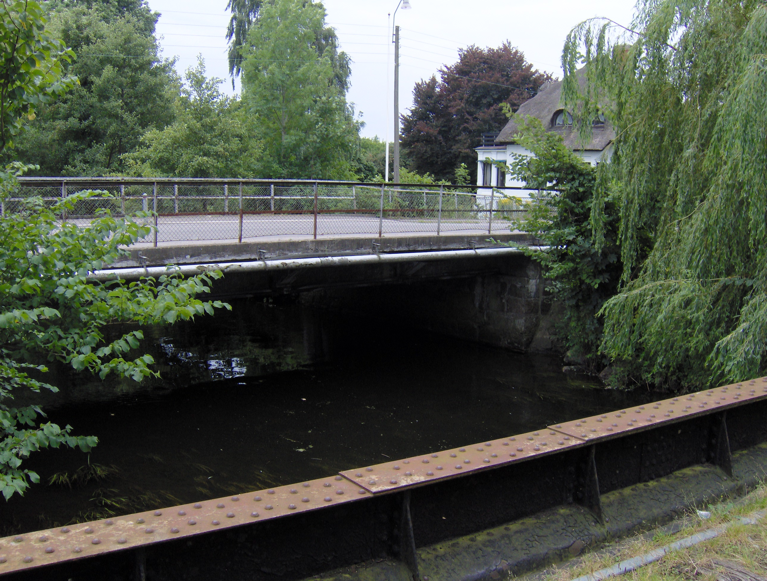 The bridge over Allingå in Allingåbro